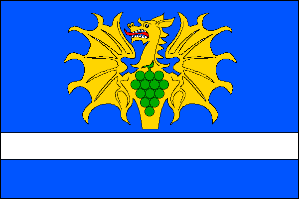 Municipal flag of Trstěnice village, Znojmo District, Czech Republic.